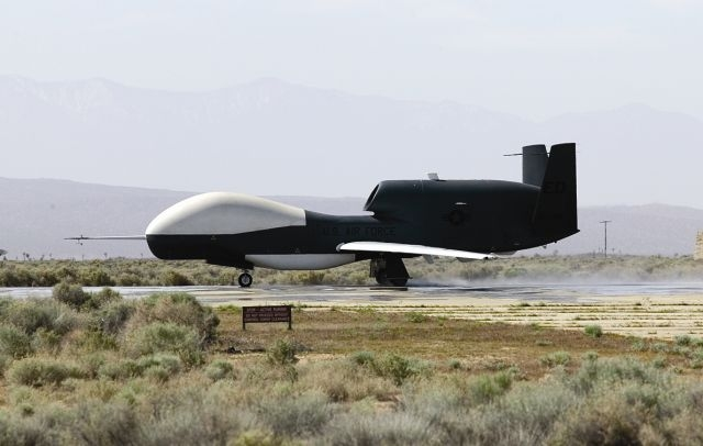 EDWARDS AIR FORCE BASE, Calif. - A Global Hawk unmanned aerial vehicle performs a high-speed taxi test on South Base here during Phase III of wet runway testing May 3. This is the first time wet runway tests have been conducted with a UAV.